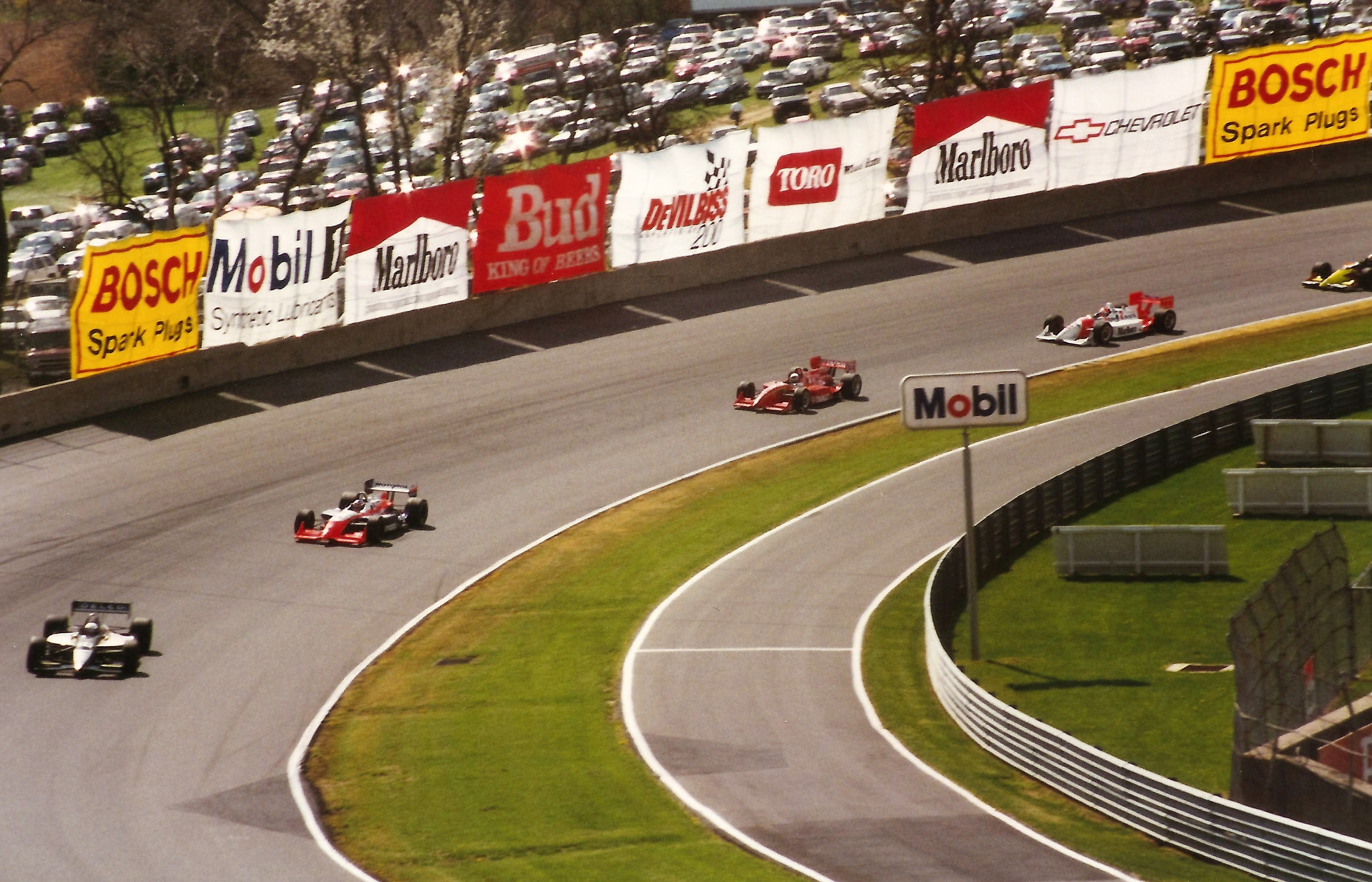 The 1997 CART Nazareth 200